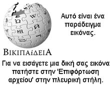 Example image for the Greek Wikipedia project